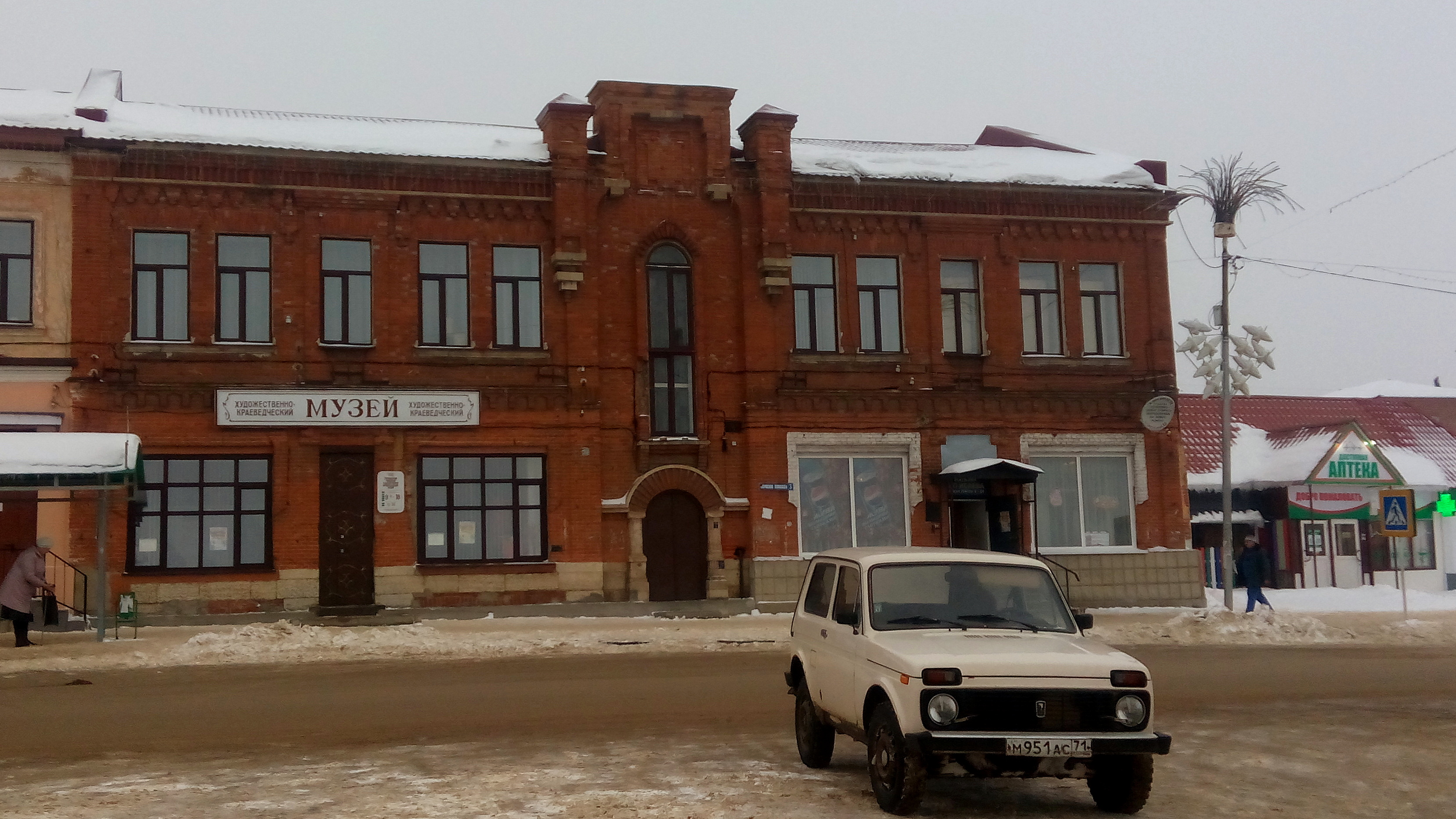 The building, where the Efremov district Museum of art and local lore is located. Red square, 1, Efremov, Tula region, Russia.